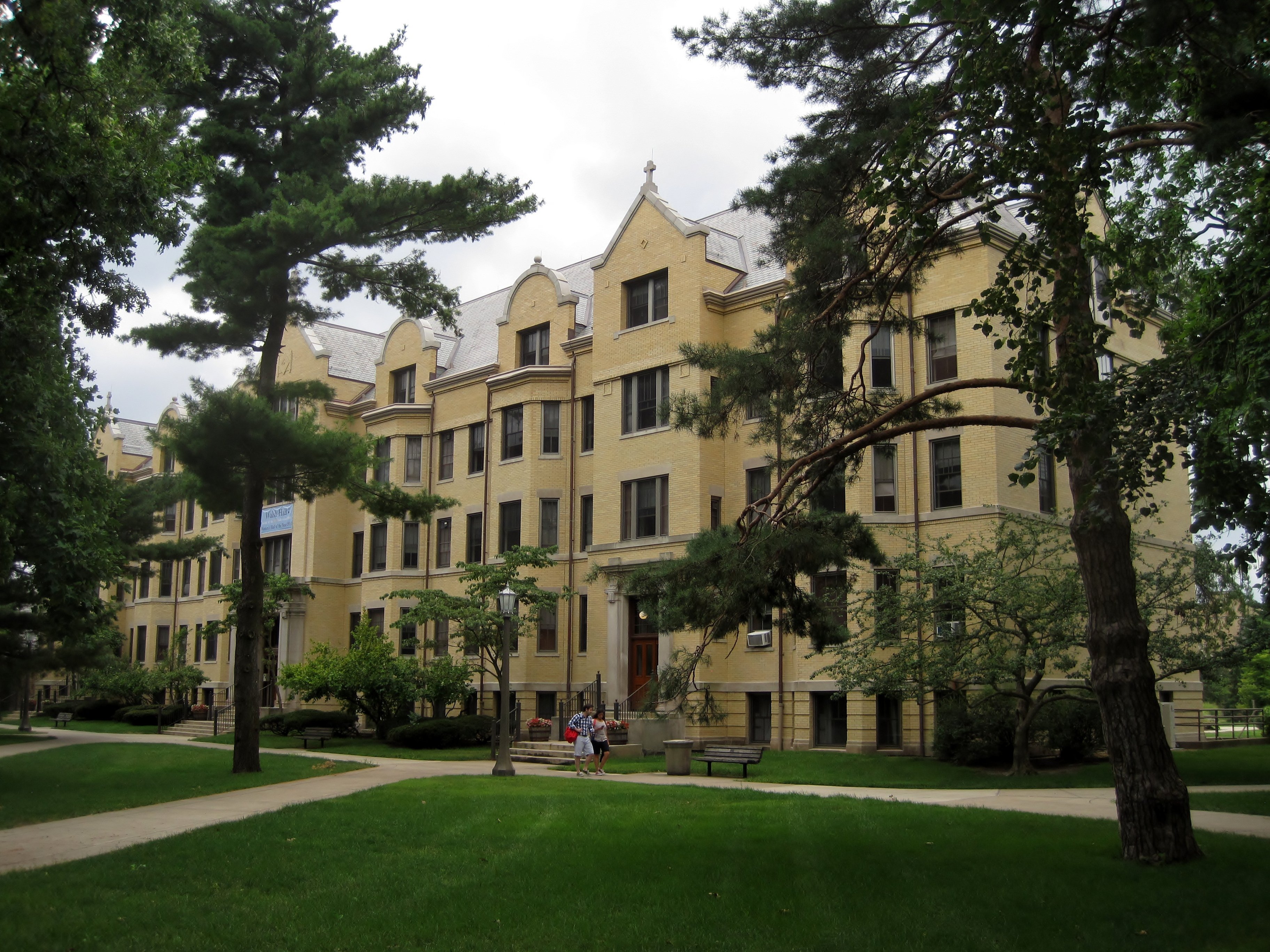 Walsh Hall at the University of Notre Dame Campus Main and South Quadrangles in South Bend, IN (1909). It was built as a residence hall.